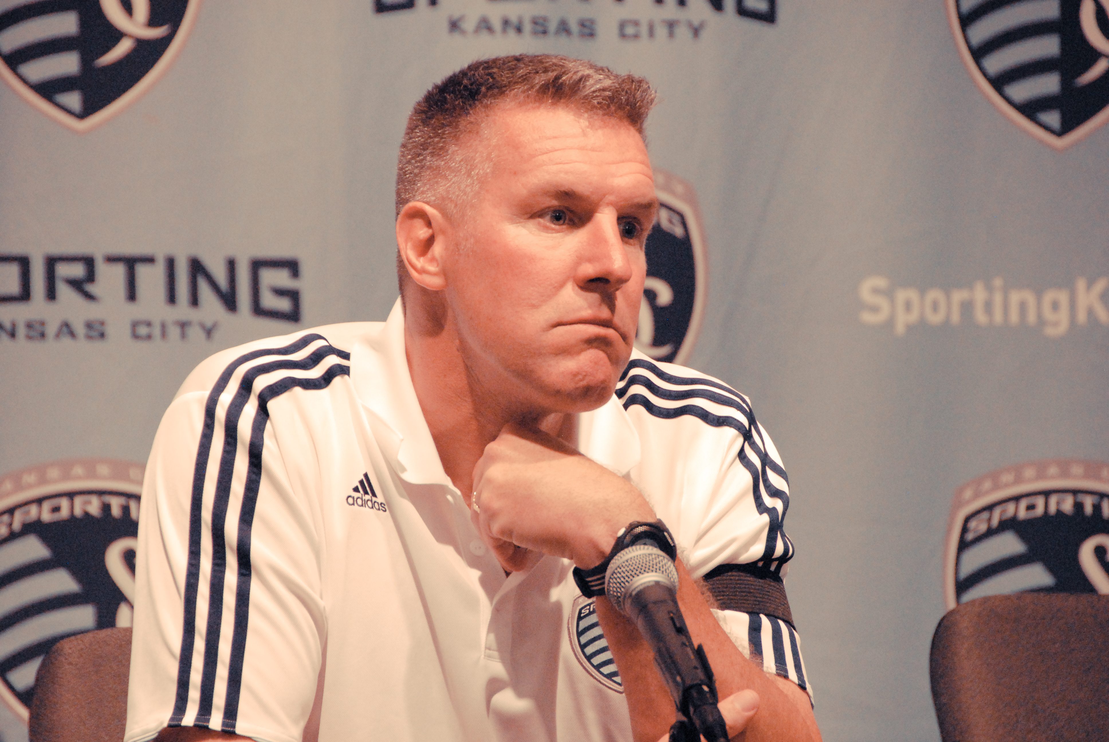 Peter Vermes, head coach of Sporting Kansas CIty Sporting KC v San Jose Earthquakes @ LIVESTRONG Sporting Park